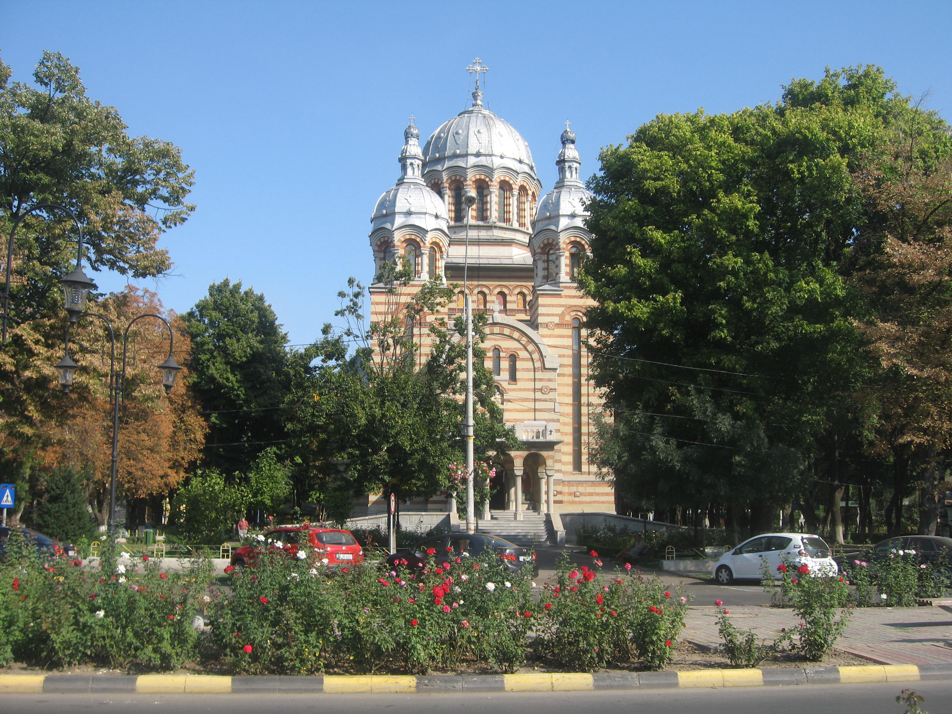 St. George Church in Tecuci, Romania